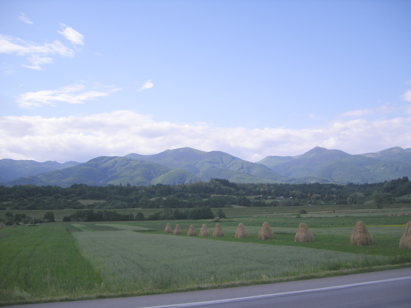 Landscape between Turany and Sučany